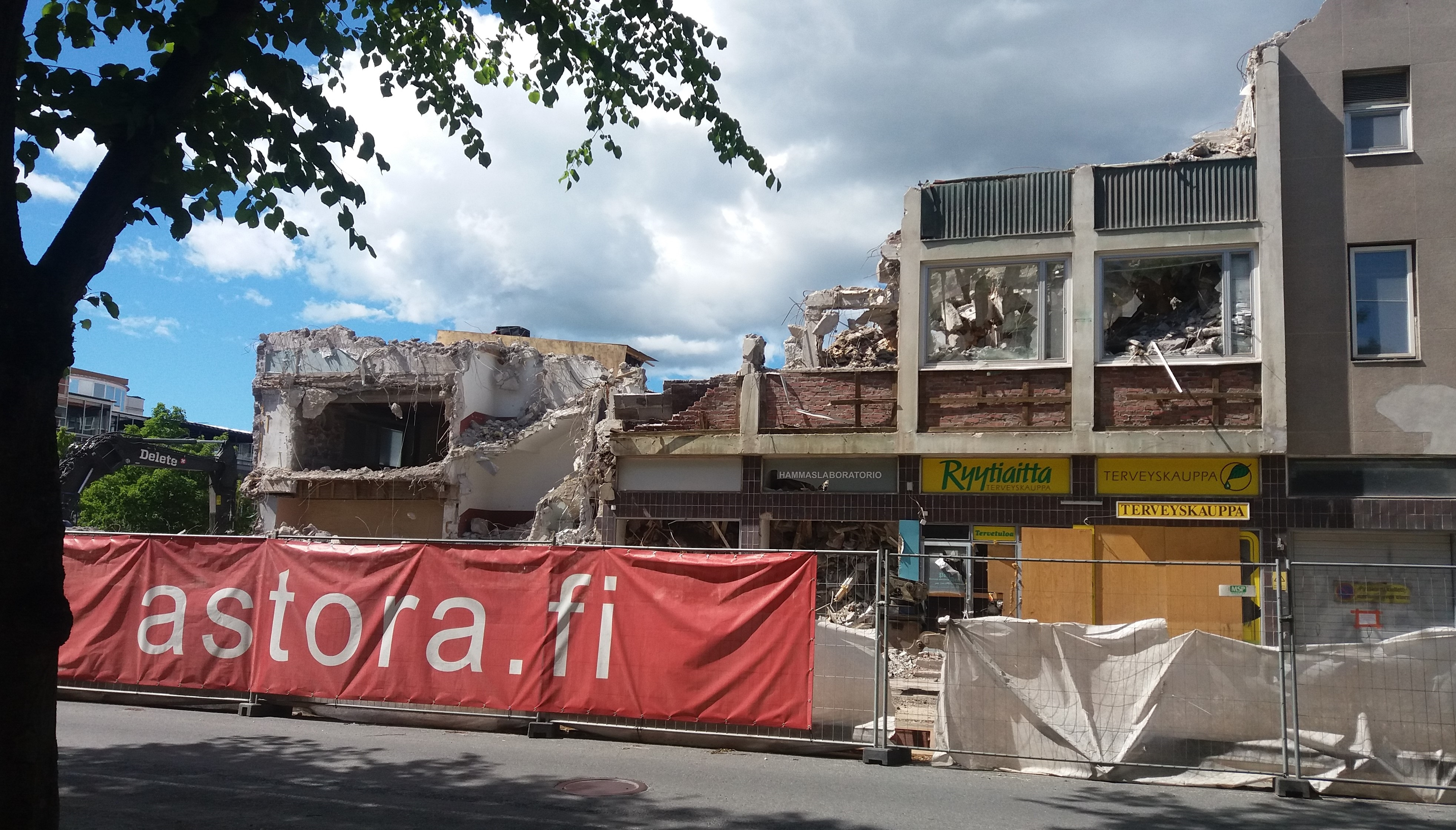 Hotel Juhana Herttua in Pori, Finland. The building was damaged by fire in May 2016 and demolished 2018.